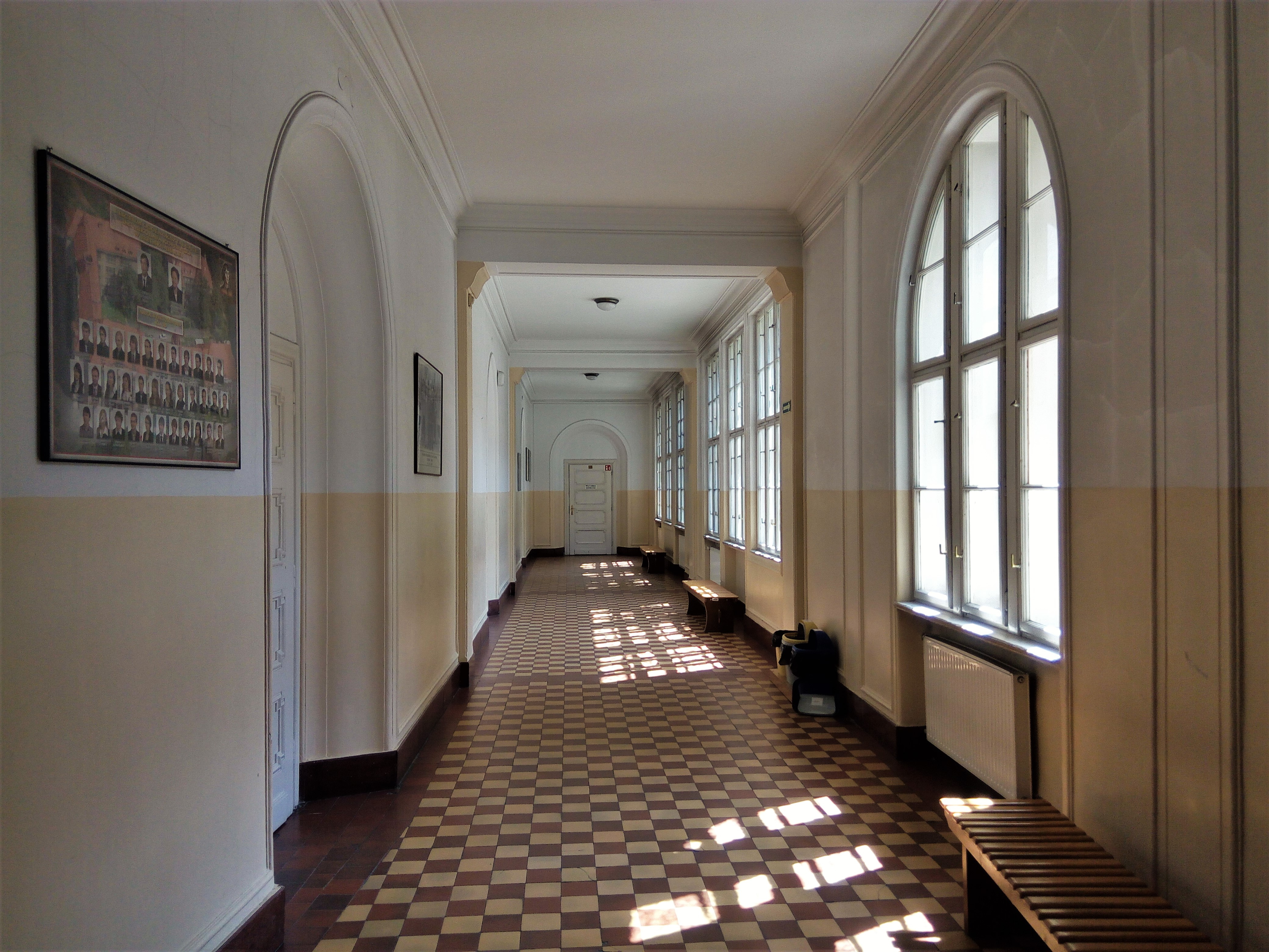 Copernicus Lyceum in Bielsko-Biała – a corridor in the east wing on the first floor